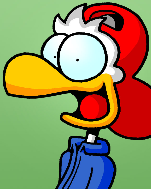 Michael and Stefan Strasser